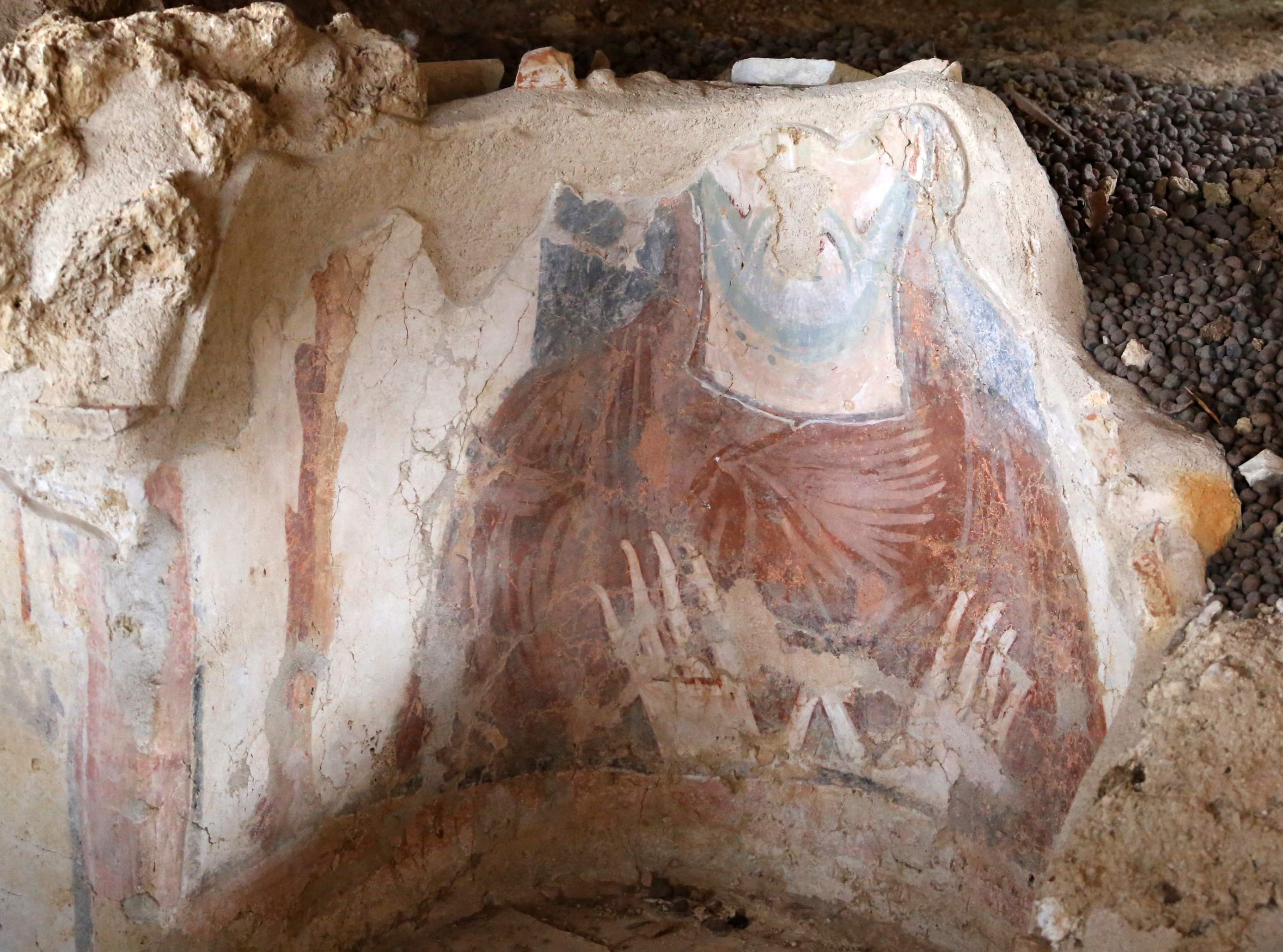 San Vincenzo al Volturno Old Abbey